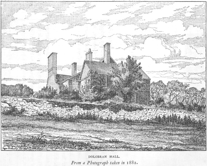 Engraving of Dolobran Hall, in the parish of Meifod in Montgomeryshire (now Powys), Wales, after an 1882 photograph. It was the seat of the Lloyd family, later of Birmingham, iron-masters, founders of Lloyds Bankl and Quakers.